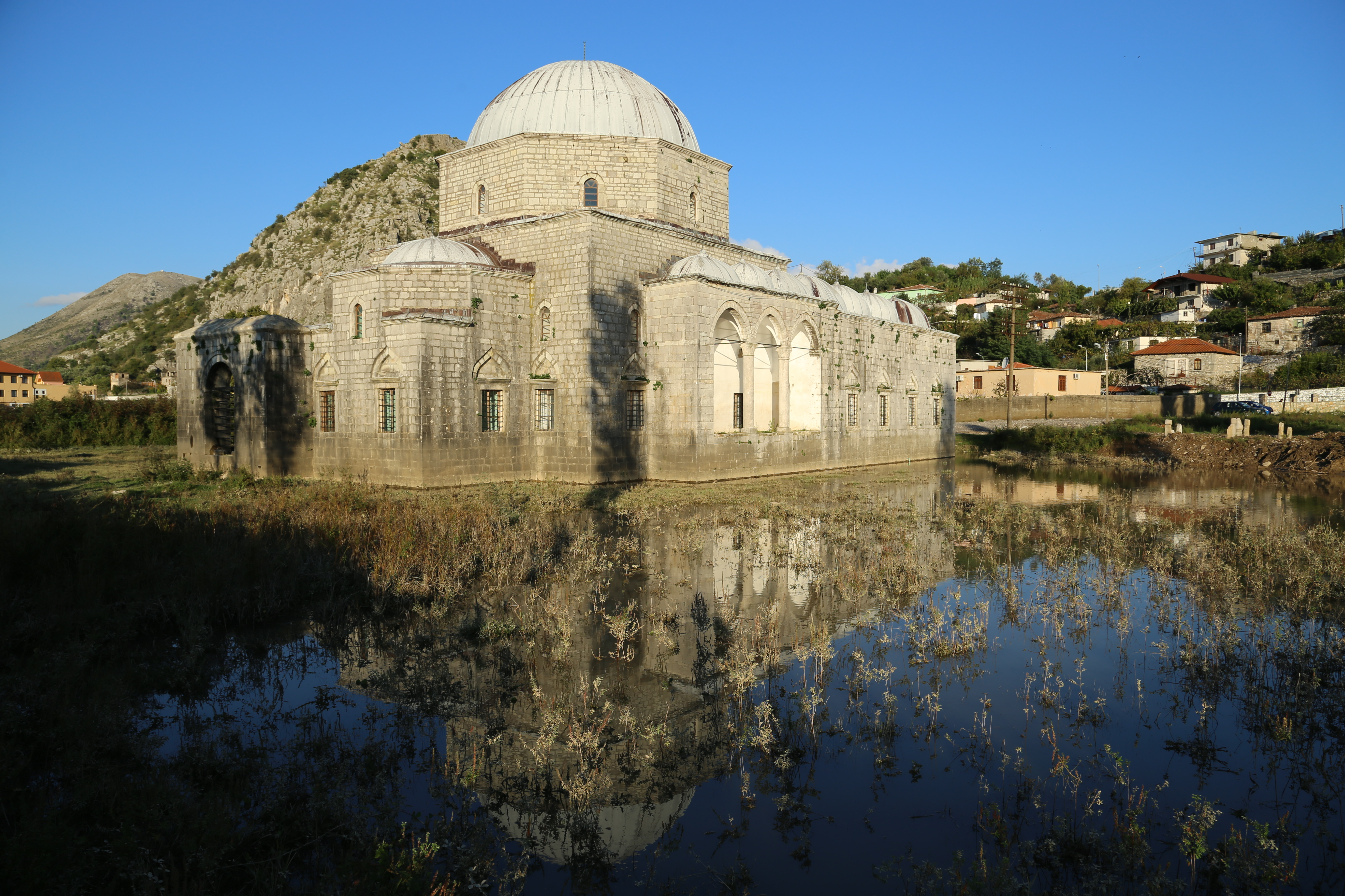 Lead Mosque, Shkodër.